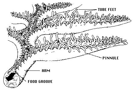 Arm and ambulacrum morphology of a living crinoid